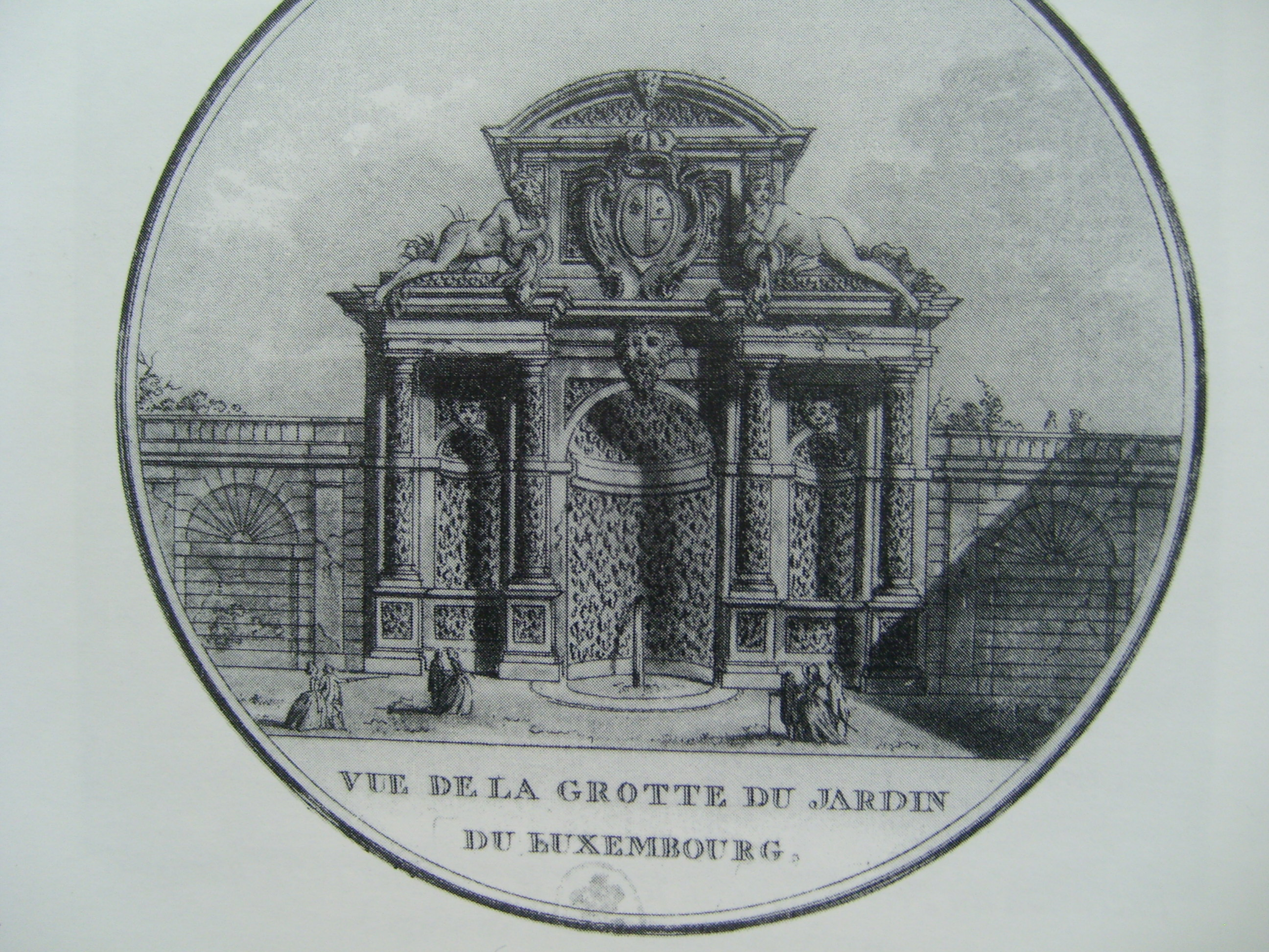 Engraving about 1820, Bibliotheque Nationale cabinet des estampes, Paris